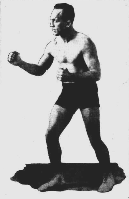 Original Caption: Billy Meeske, cruiserweight champion of Australia, who hopes to show Walter Miller that Australian wrestlers are equal to anyone.